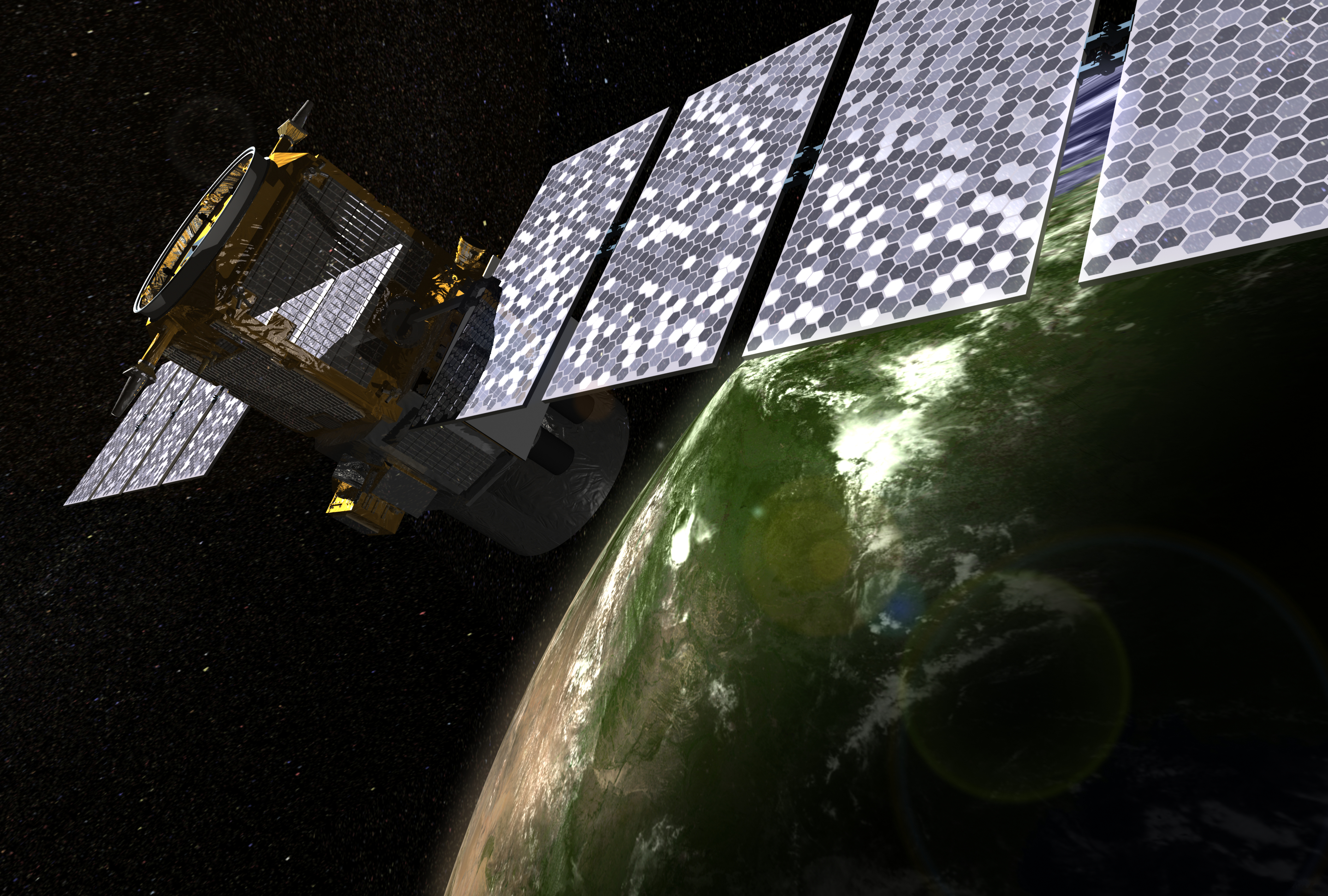 Artist concept of the CALIPSO satellite